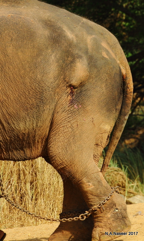 Captive Elephants of Kerala, Cruelty against elephants, Aanapremam, Thrissur Pooram, Festivals of Kerala, Elephants in captivity, Temples of Kerala